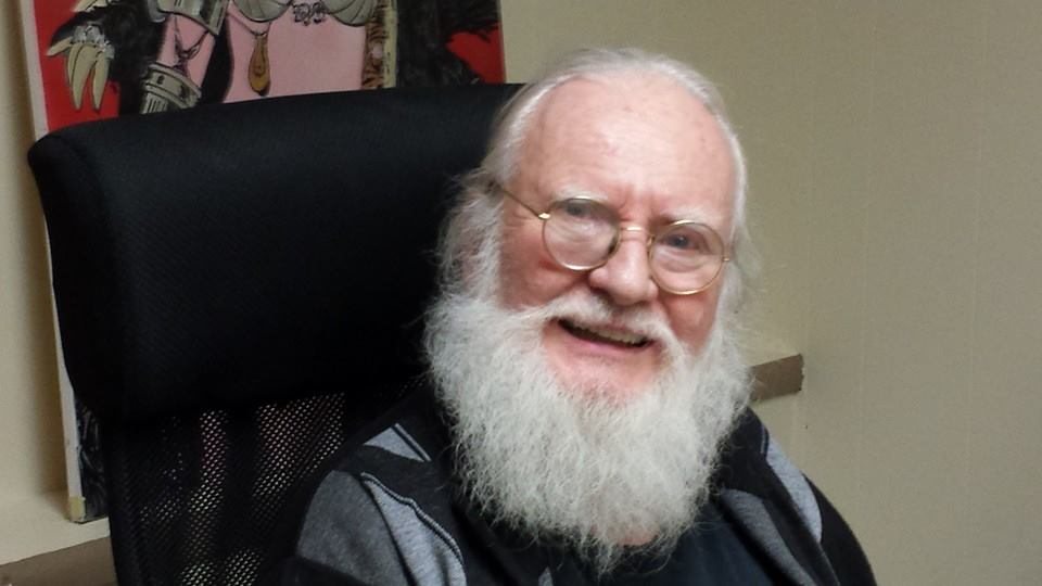 Photo of Frank Thorne